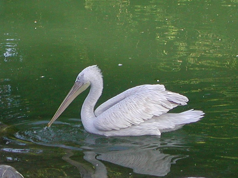 Krauskopfpelikan (Pelecanus crispus) Photo taken in the Tierpark Dählhölzli in Berne Source: photo uploaded by User:RicciSpeziari. Photographer: Riccardo Speziari